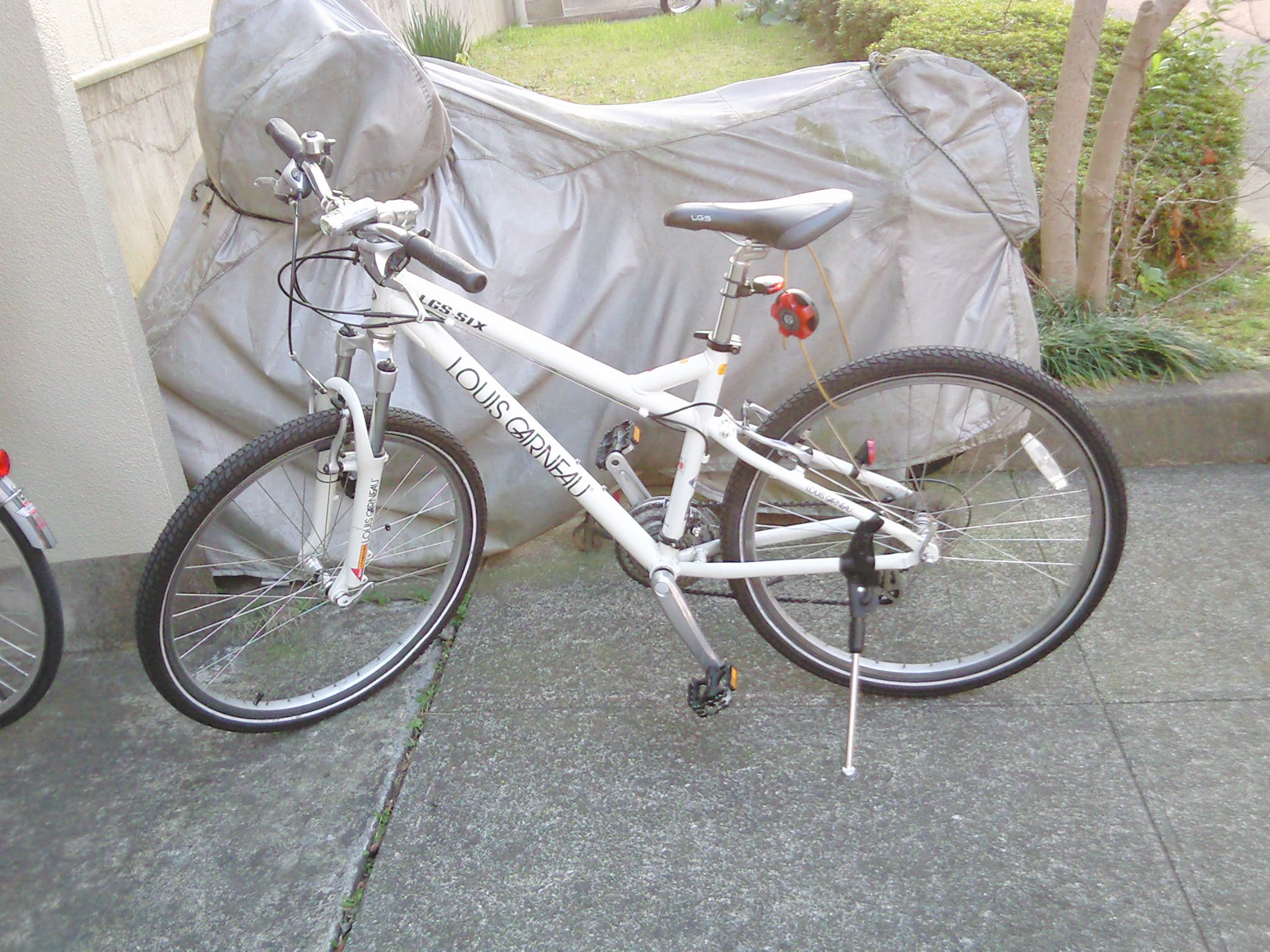 Bike, Canada (LOUIS GARNEAU: LGS-SIX)